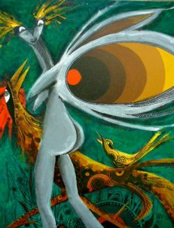 Pintor